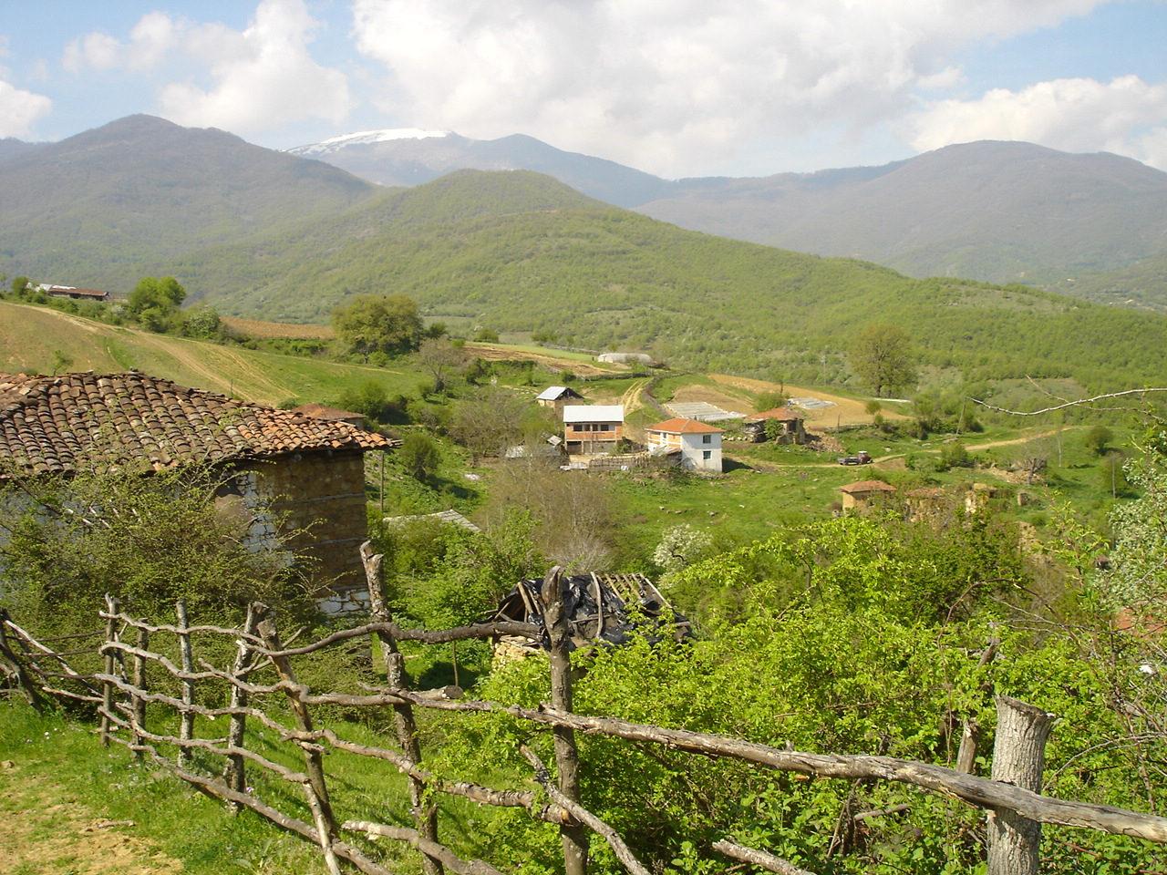 village of Dobrino, Macedonia